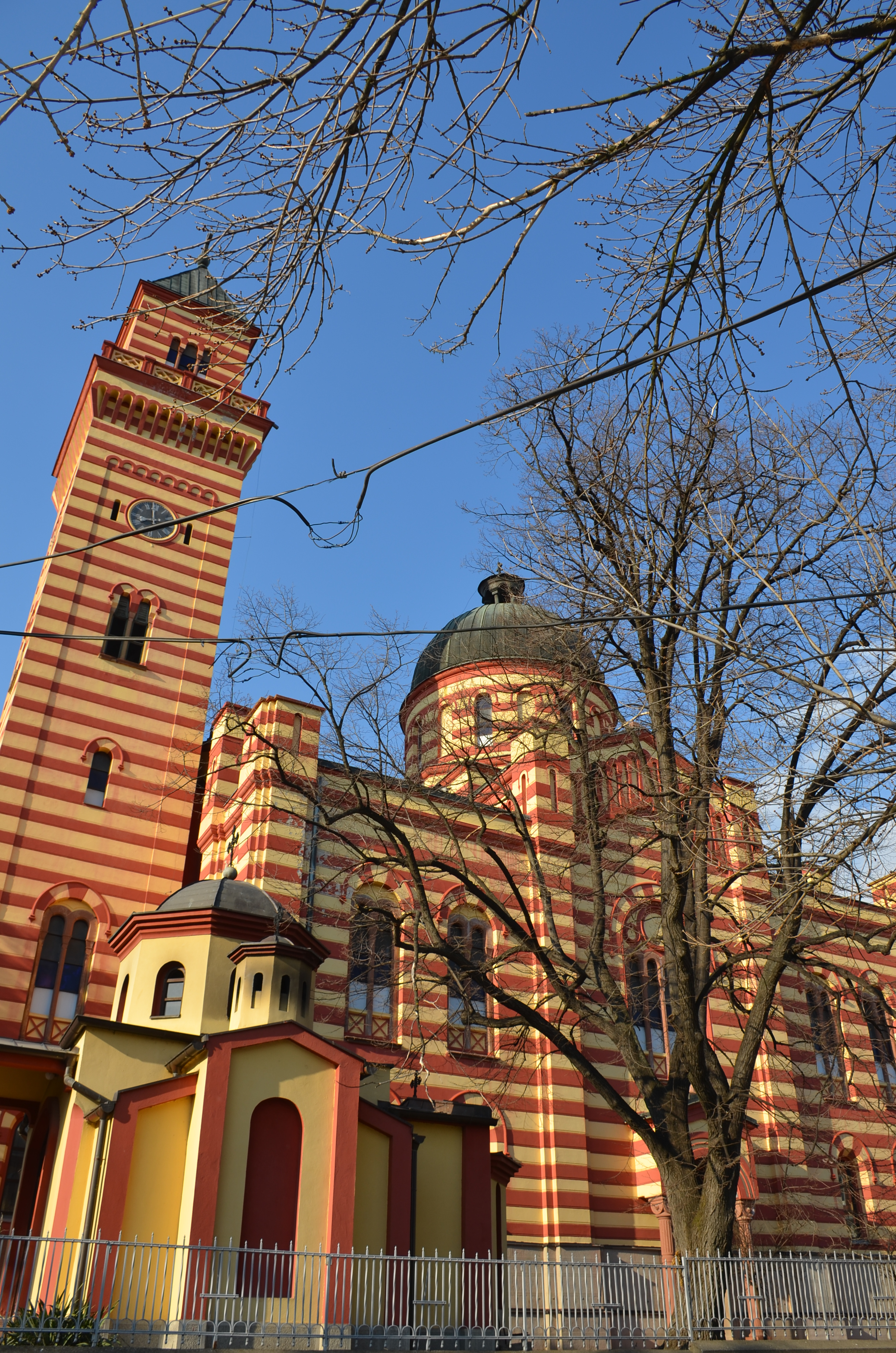 Zapis - Sacred Tree, Linden in Paraćin, municipality Paraćin, Serbia